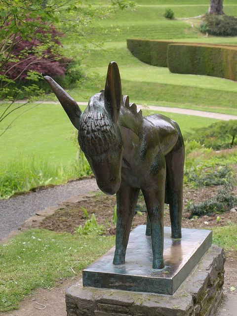 Donkey, Dartington Willi Soukop's little bronze donkey, made in 1938 for this spot, is a perennial hit with small children, and consequently has a very shiny back.